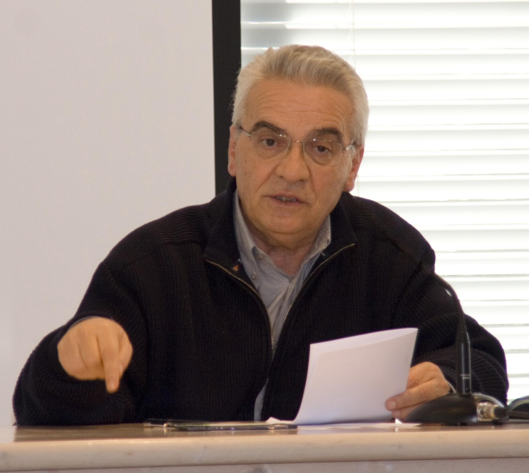 Vinicio Albanesi, president of Comunità of Capodarco